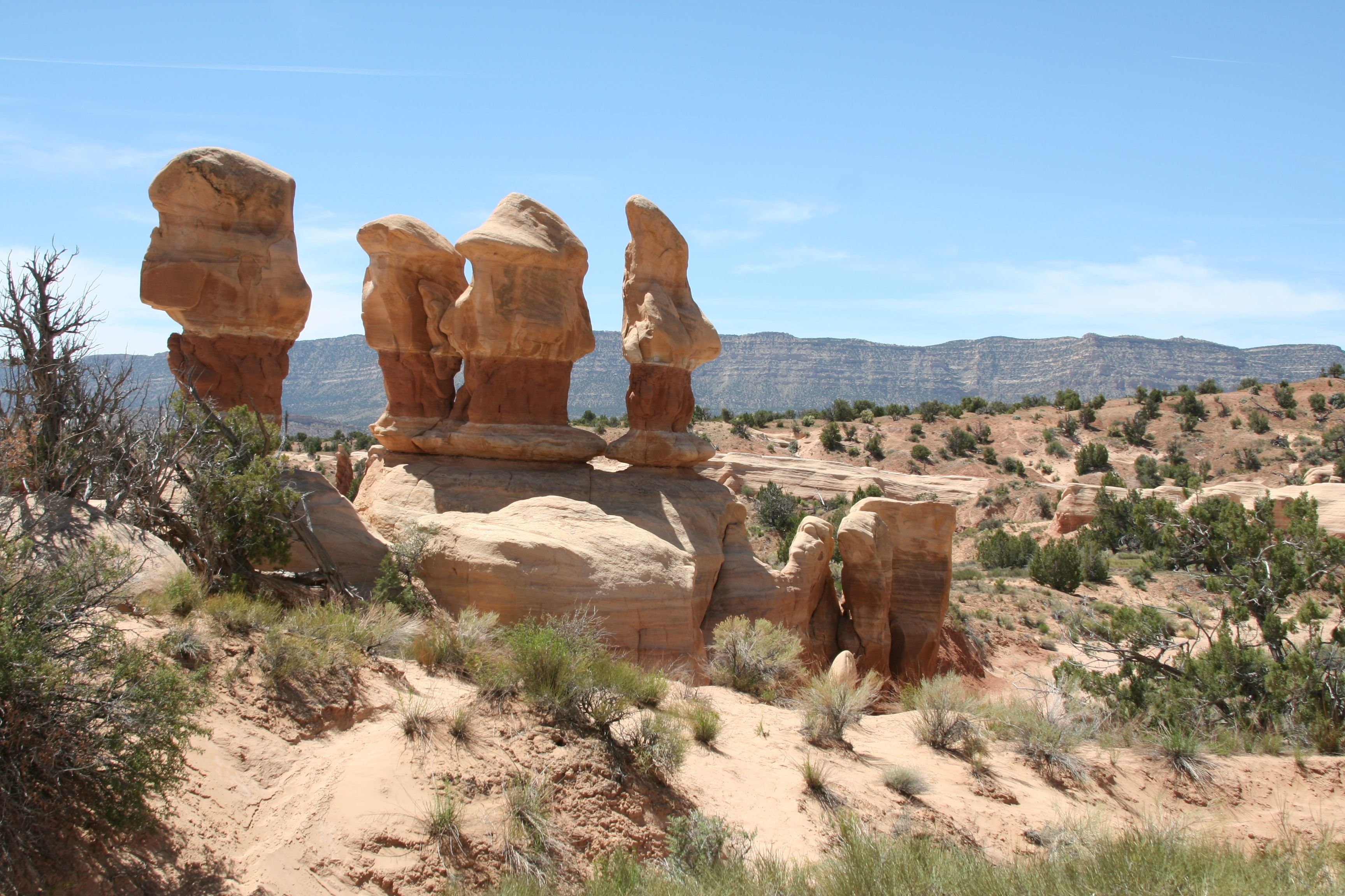 Looking from Devils Garden to Straight Cliffs